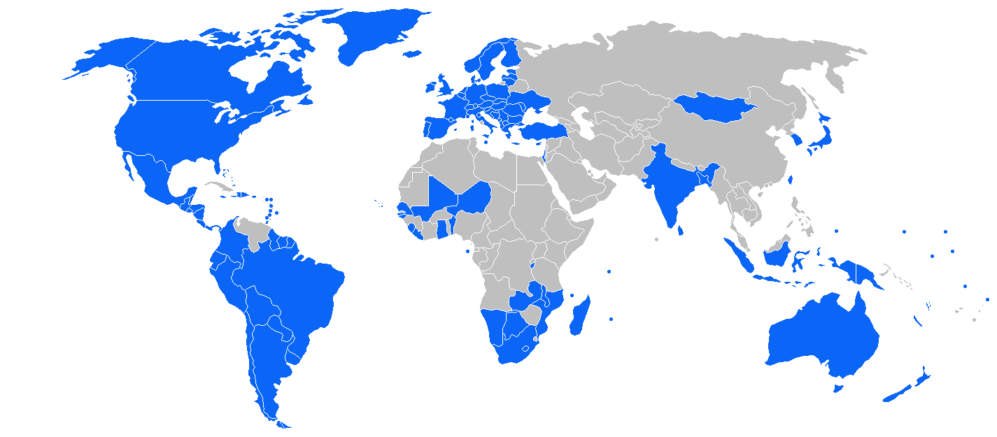 Map of electoral democracies 2009 (Freedom House)